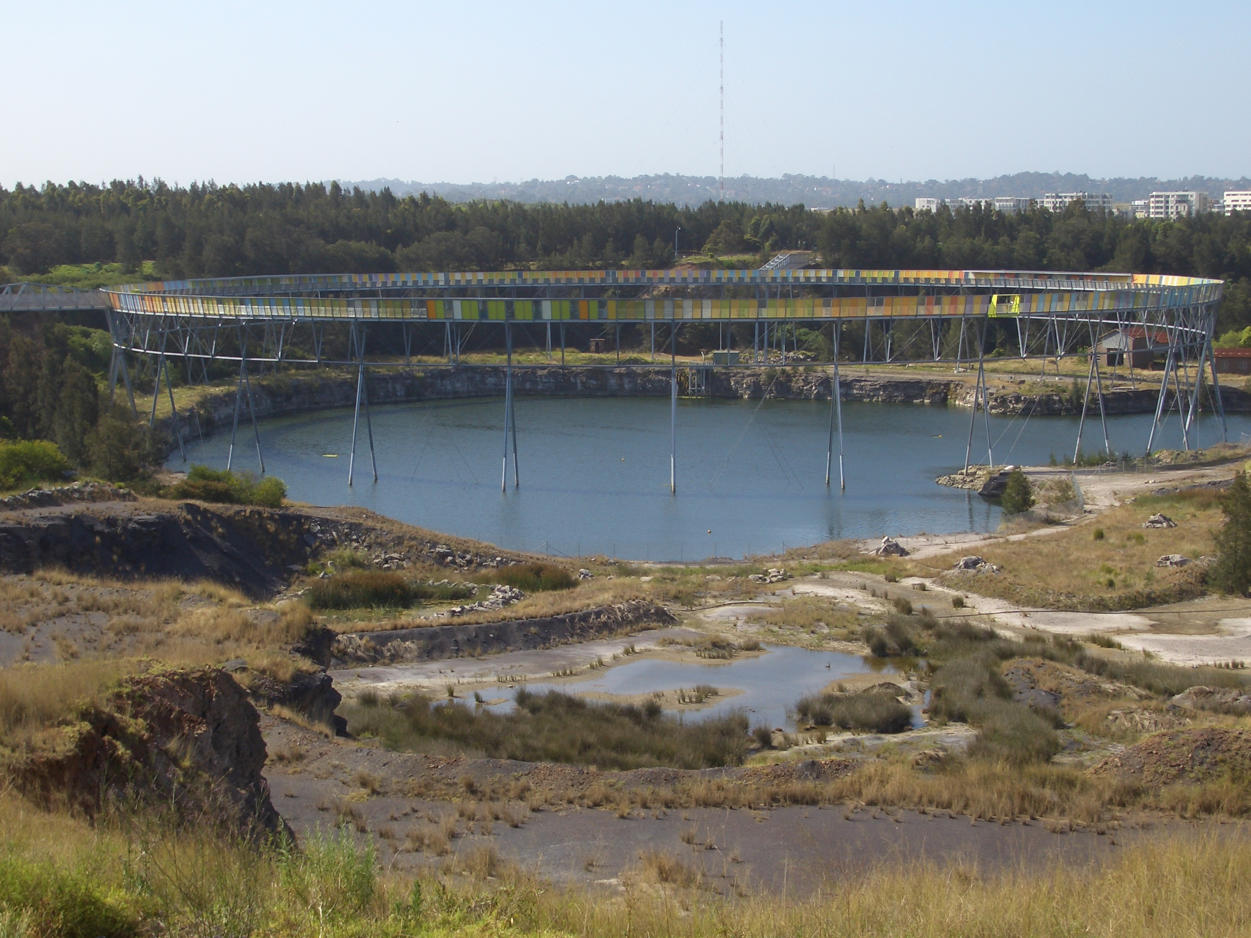 Sydney Olympic Park, Homebush Bay Brick Pit